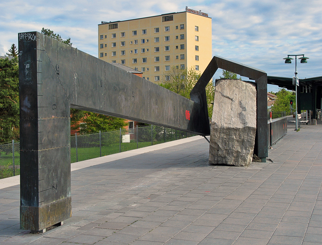 Tumstock och Ölandsstenblock ("Yardstick and boulder from Öland"), sculpture by Freddy Poulsen (1935—) in Bandhagen, Stockholm, Sweden